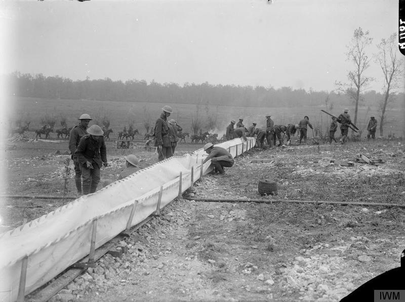 The Battle of the Somme, July-november 1916 Royal Engineers constructing a canvas water trough for horses at Carnoy, September 1916.